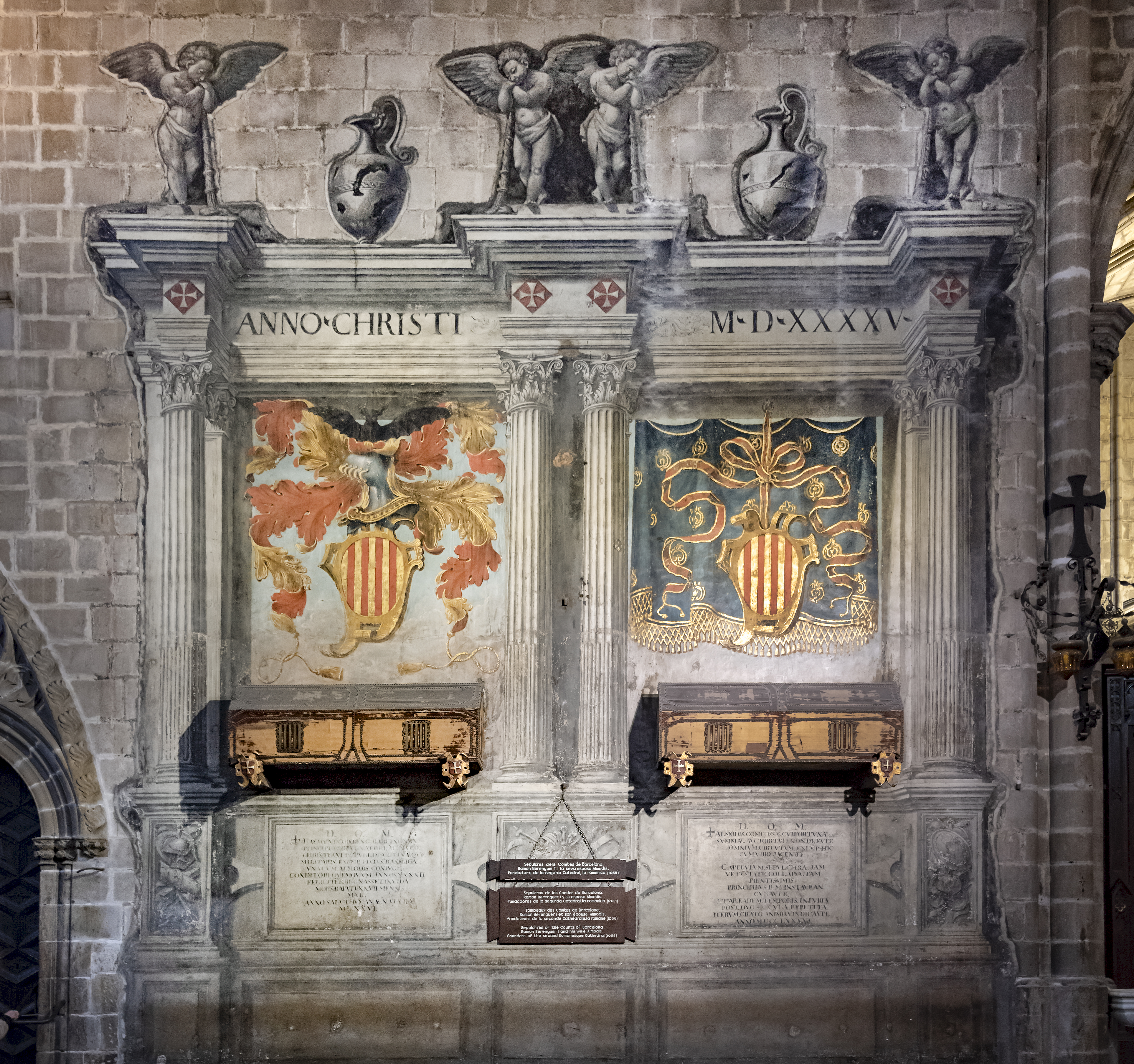 The Cathedral of the Holy Cross and Saint Eulalia in Barcelona. Next to the sacristy, located high on the wall, and on a background of 1545 paintings executed by the Portuguese painter Enrique Ferrandis or Fernandes, are the burials of Ramón Berenguer I, Count of Barcelona and Almodis de la Marca, his wife .